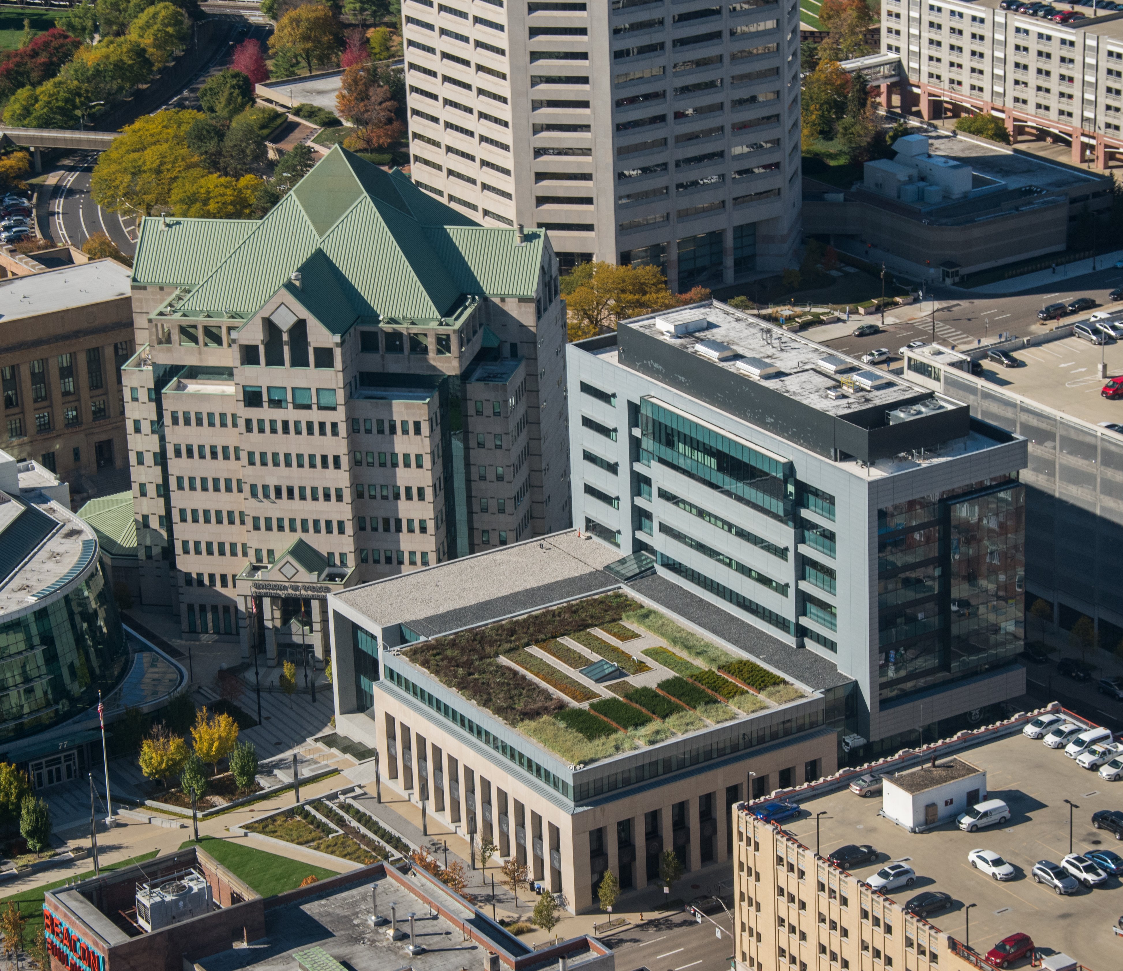 Columbus Division of Police and Michael B. Coleman Government Center from Rhodes State Office Tower.